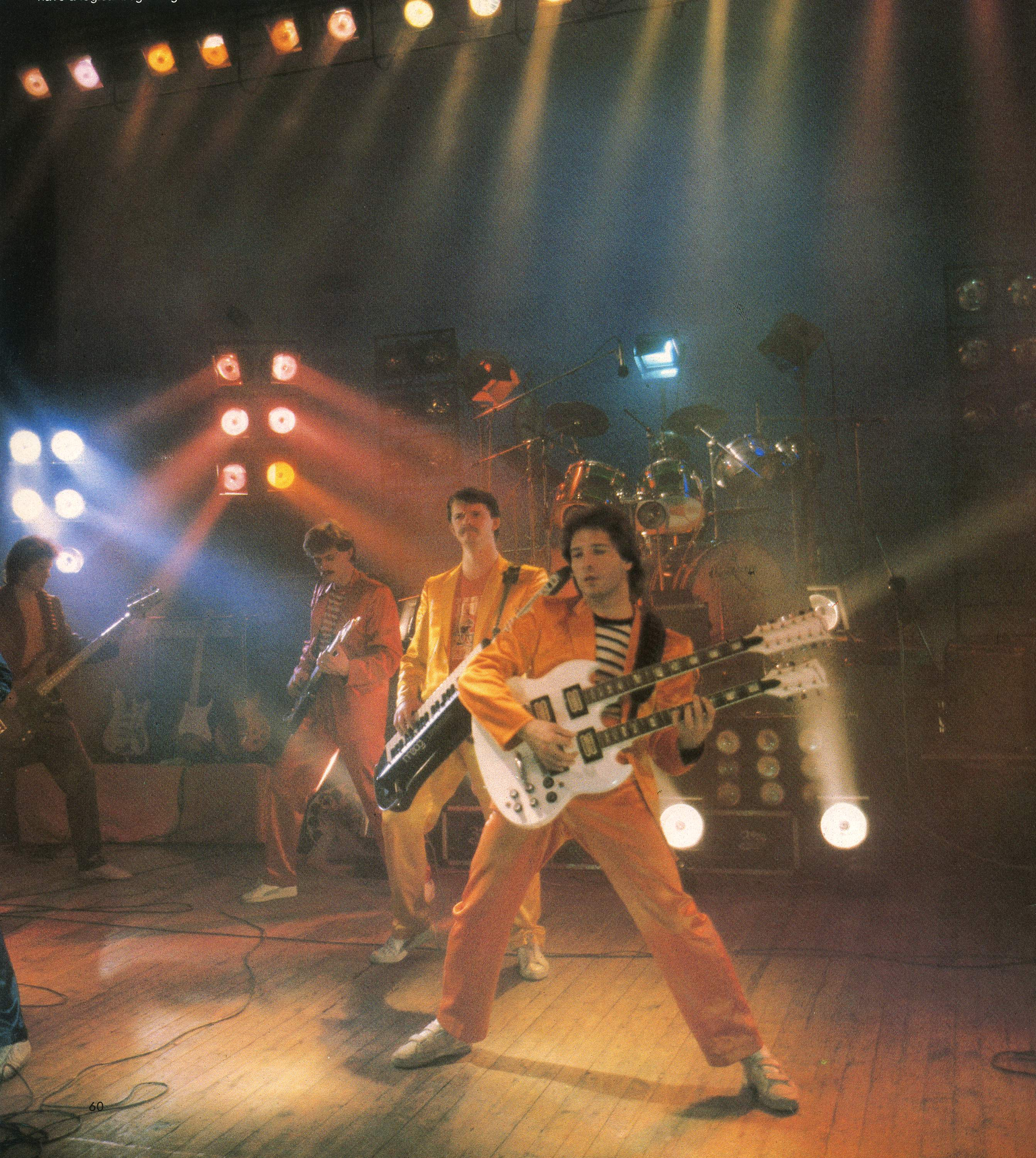 Zemlyane as depicted in Soviet Life, October 1984